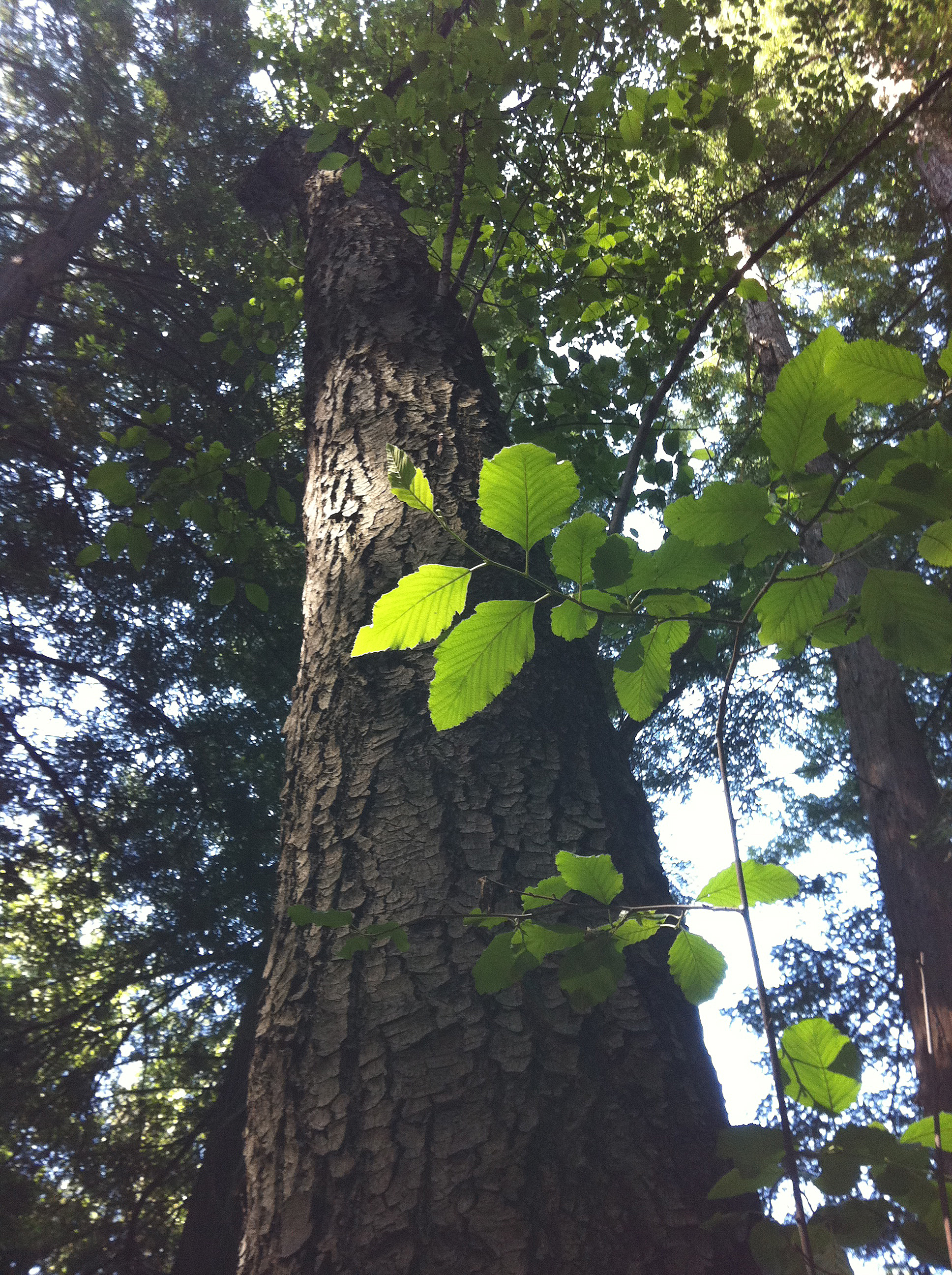 Alnus rhombifolia (White Alder) foliage (on right), and a Sequoia sempervirens (Coast Redwood) trunk. In a Coast redwood grove on Adobe Creek in the Santa Cruz Mountains, Santa Clara County, Northern California. Red alders have tightly revolute leaf margins, this White alder tree does not. 2011-06-25.jpg White Alder at Redwood Grove on Adobe Creek.